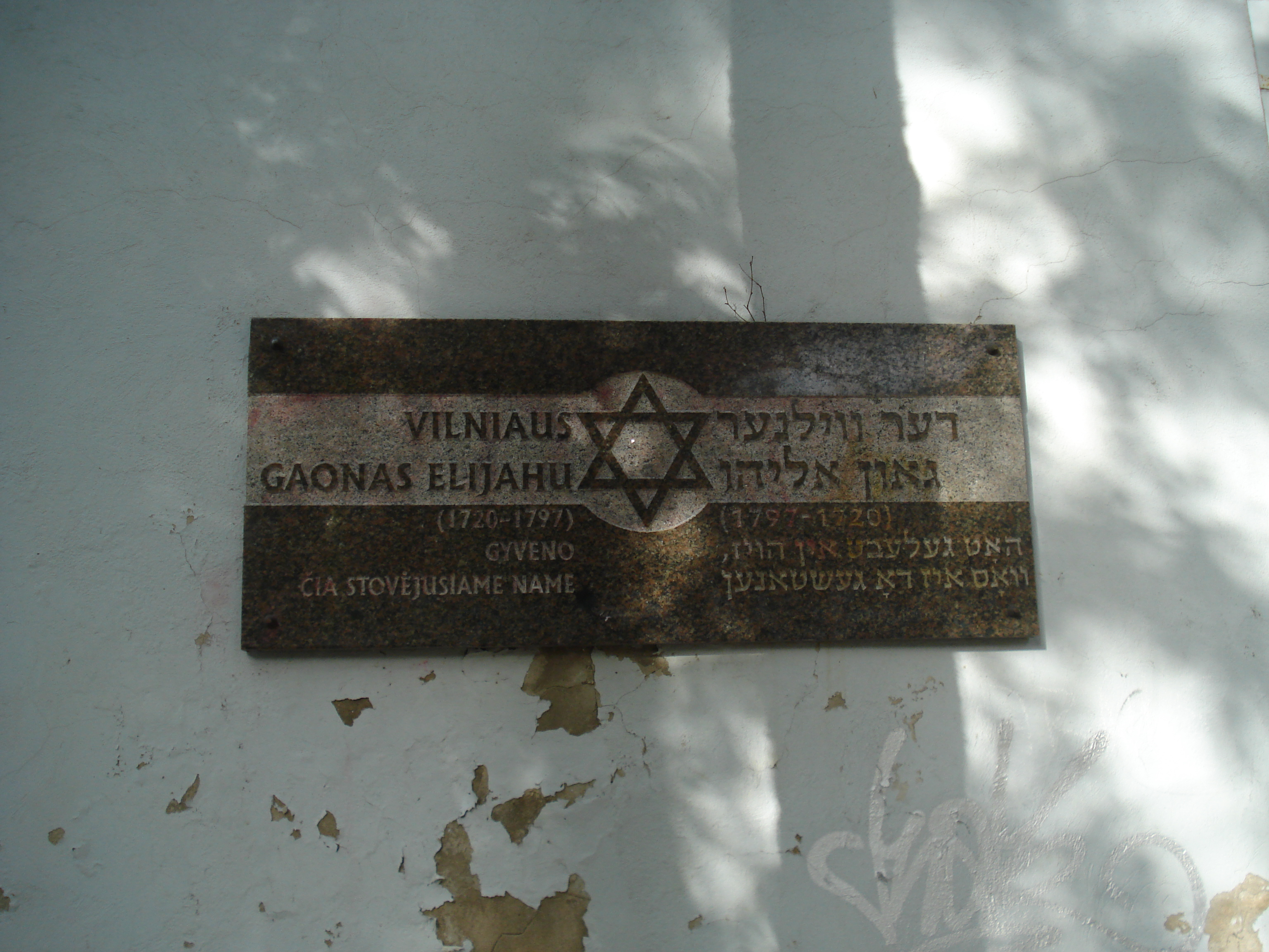 The Vilna Gaon (1720–1797; prominent rabbi, Talmud scholar, and Kabbalist) memorial tablet in Vilnius